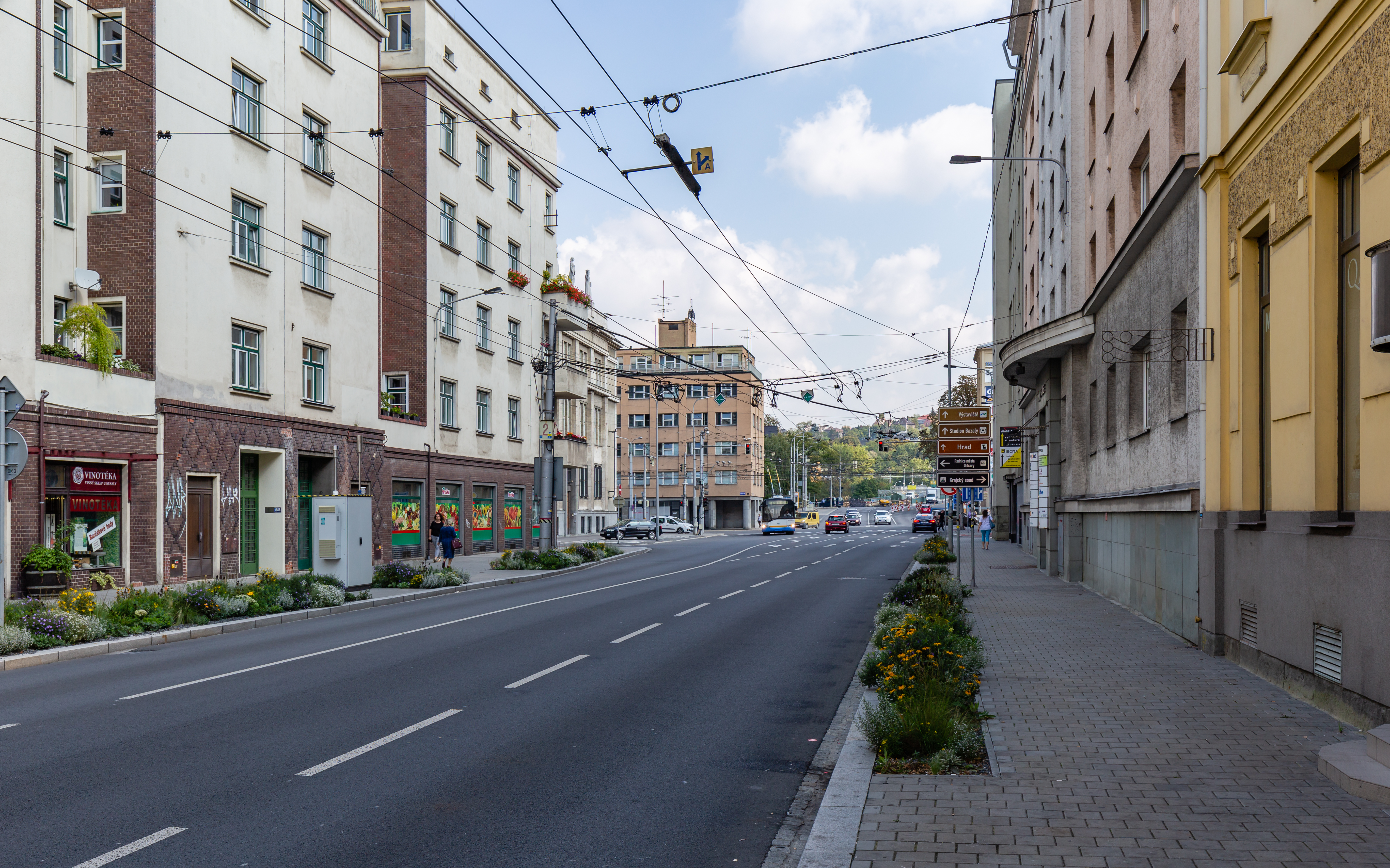 Českobratrská Street, Ostrava, Czech Republic